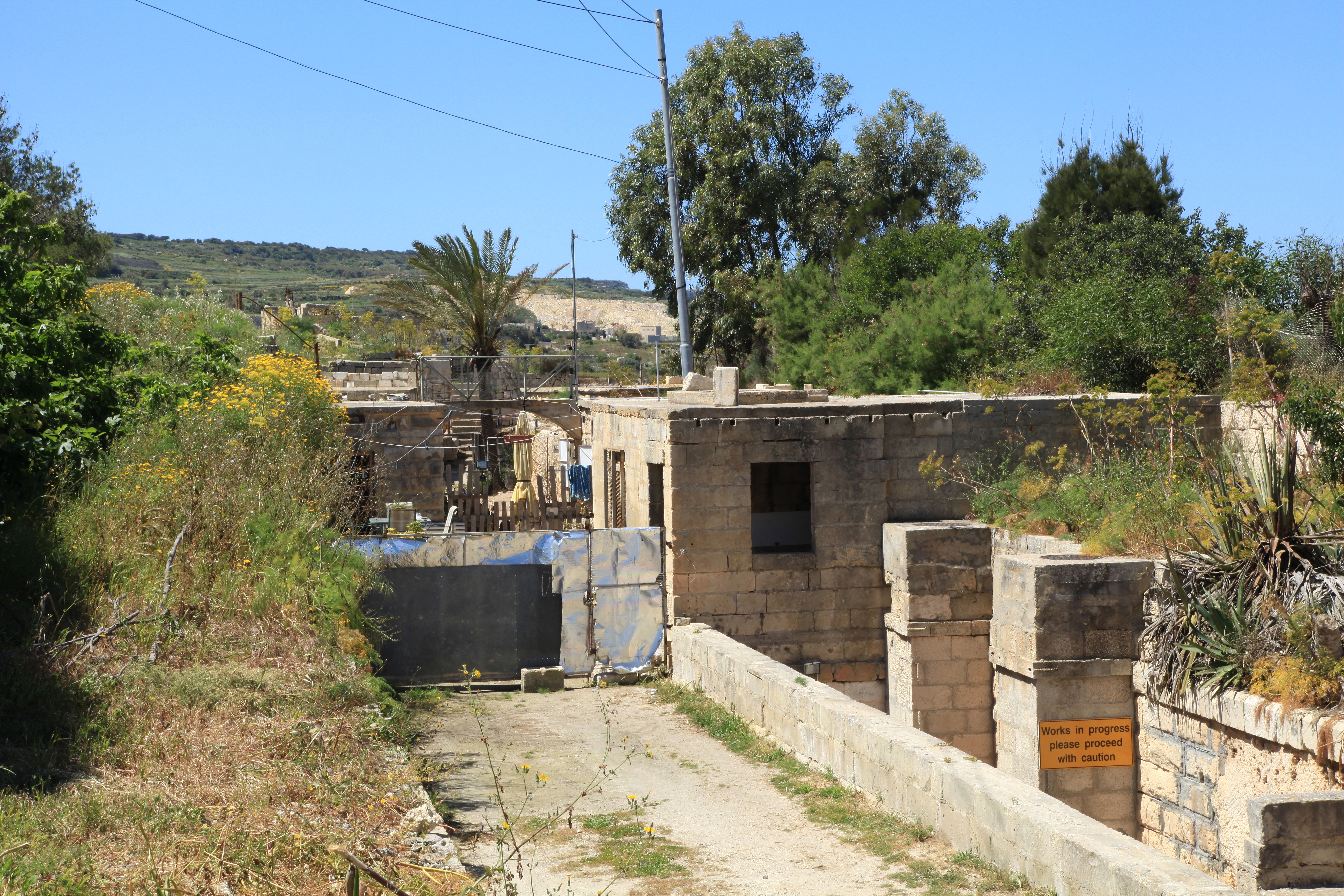 Tat-Targa Battery in St. Paul's Bay, Malta